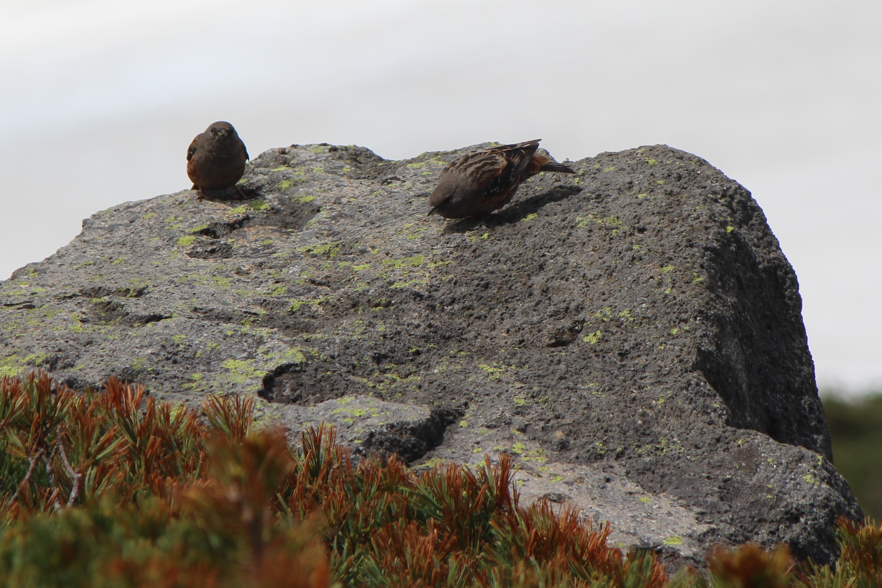 Prunella collaris erythropygia (Japanese Alpine accentor) on rock, in Murodō, Mount Haku, in Gifu prefecture, Japan.